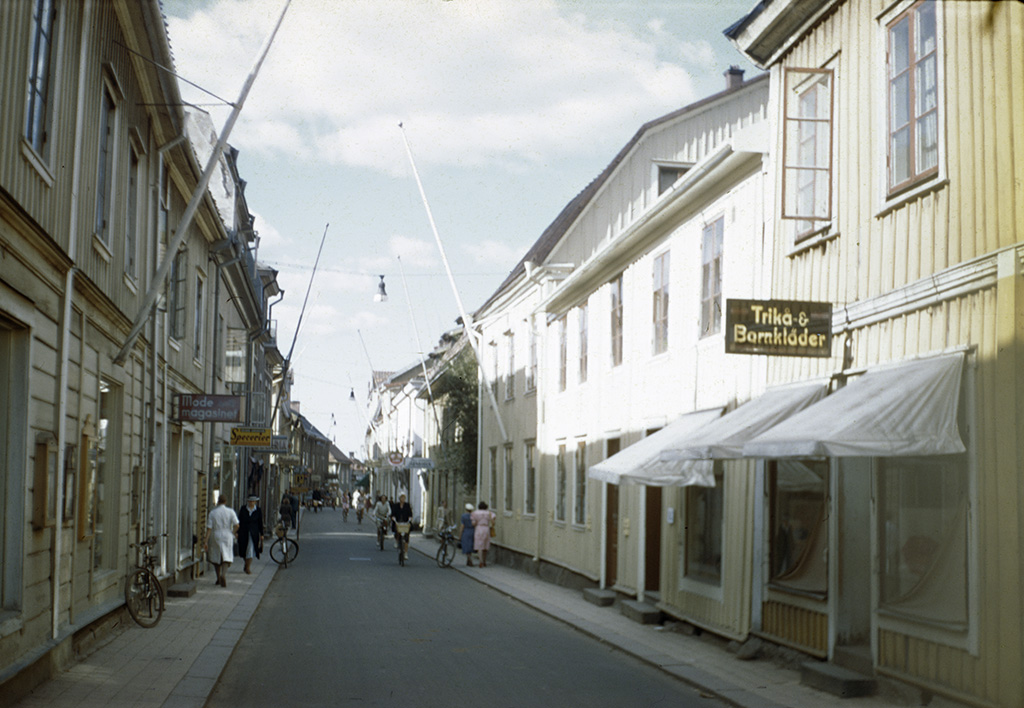 North Main Street, with shops. Norra Storgatan, med butiker. Parish (socken): Eksjö Province (landskap): Småland Municipality (kommun): Eksjö County (län): Jönköping Photograph by: Fredrik Bruno Date: 1947 Format: Colour slide See a recent photo of the same view: Persistent URL: Read more about the photo database (in english)